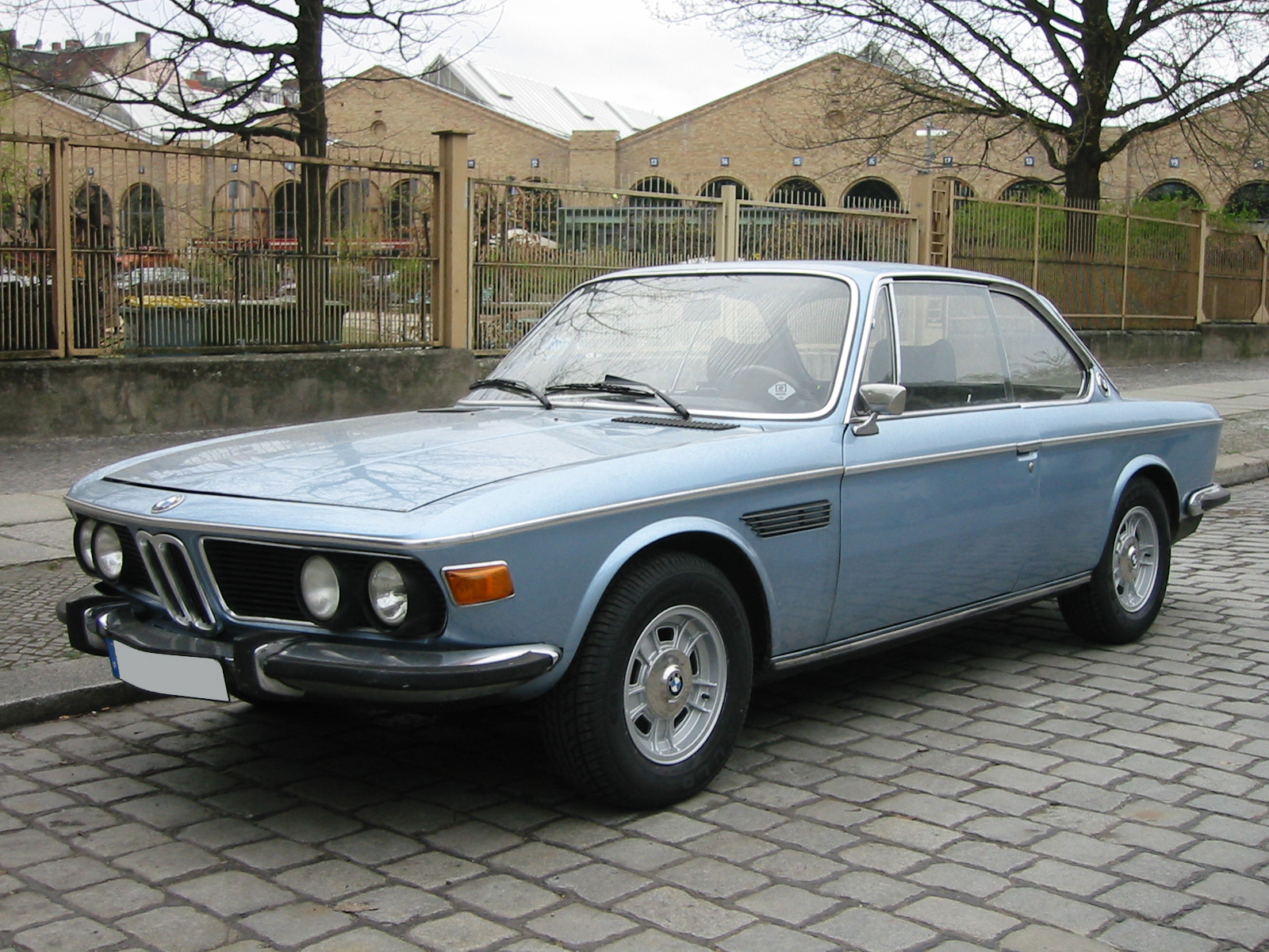 BMW 3.0 CS, spring 2010 near Meilenwerk Berlin, Germany.